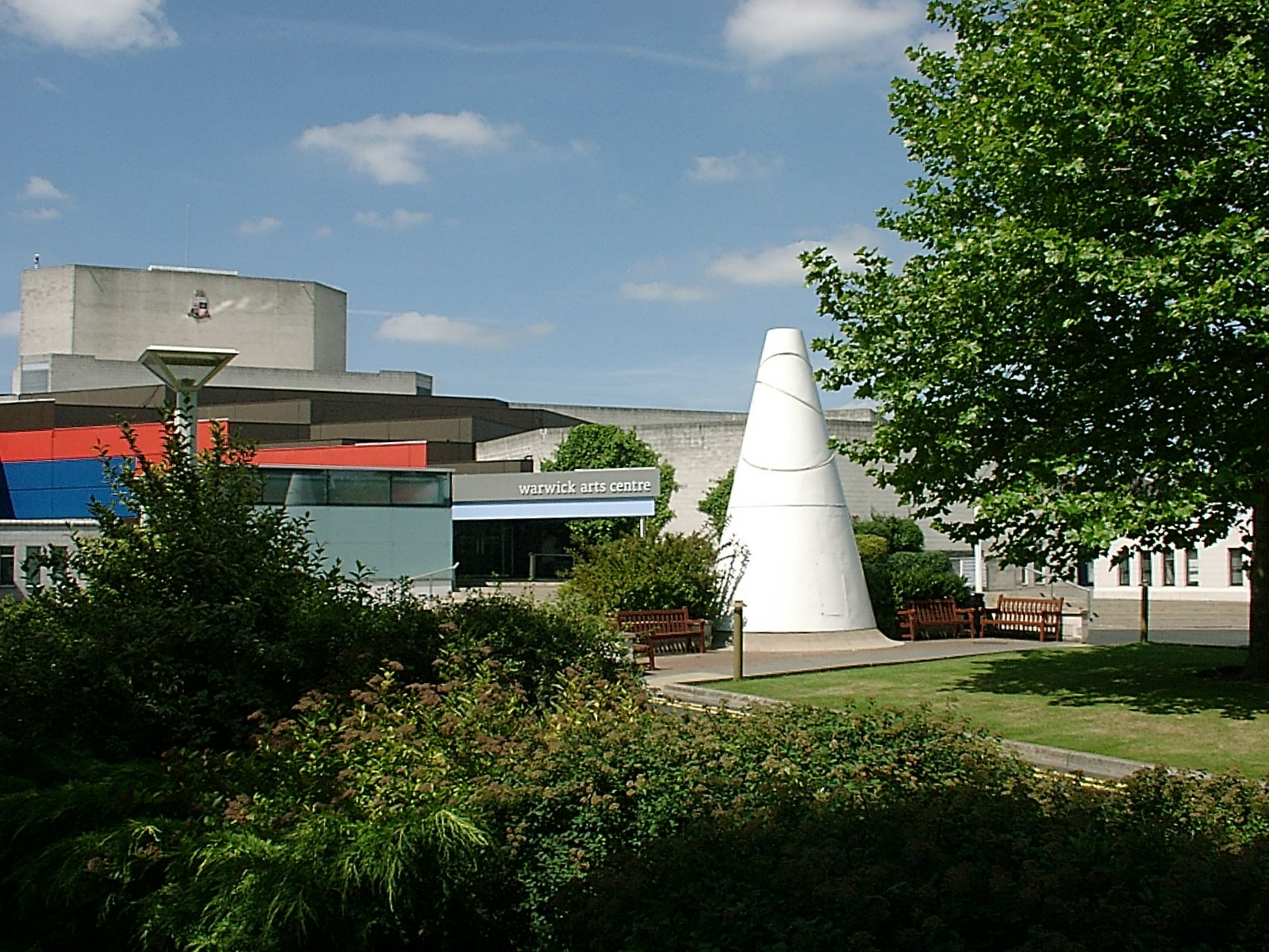 Photo taken by me in 2003 approx. It shows the Warwick Arts Centre at the University of Warwick, Coventry, England, and the "Koan", a white cone shaped statue.